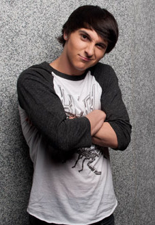 Mitchel Musso on Walmart Soundcheck, April 2011.